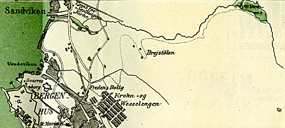 Excerpt from map of Bergen 1877. From the book: Bergen fra de ældste Tider indtil Nutiden, Christiania 1877.